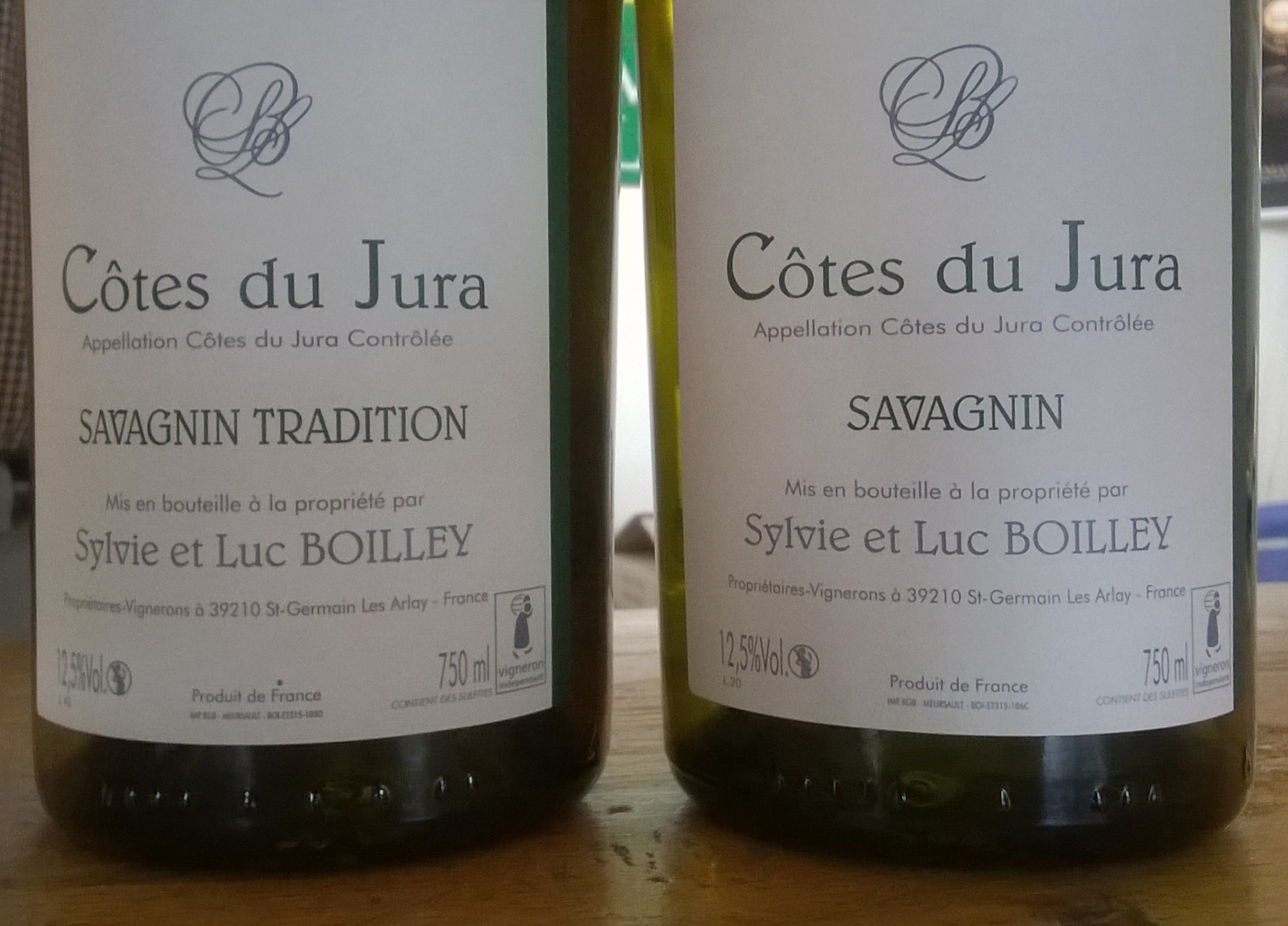 Two bottles Savagnin wine at a customer fair in France